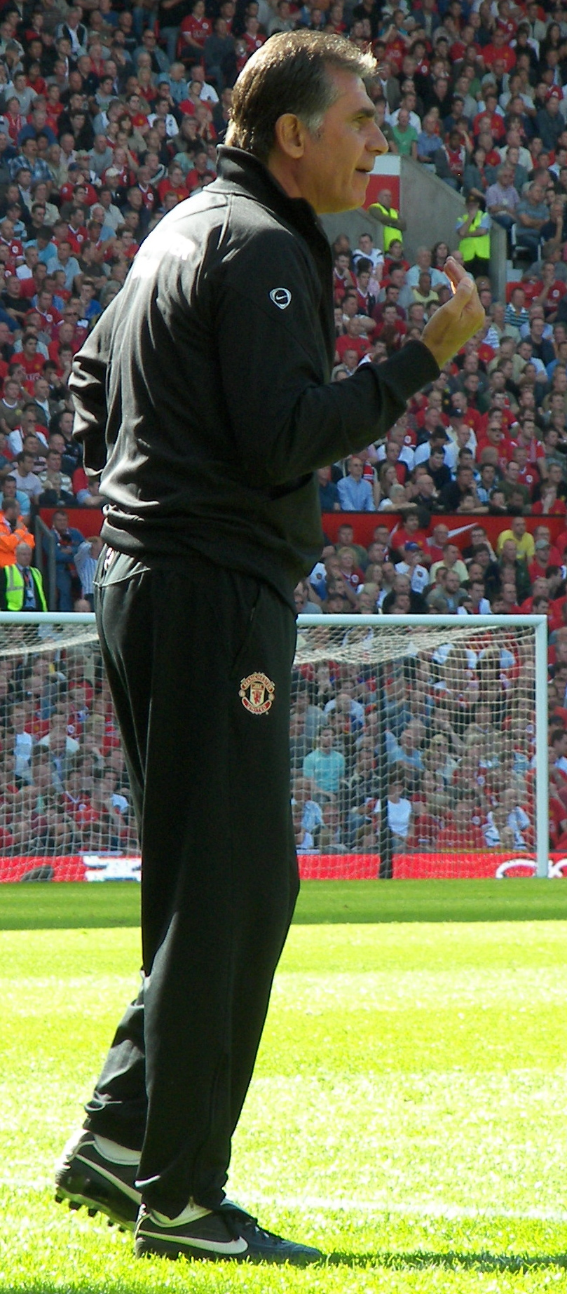 Picture of Carlos Queiroz taken on 12/8/2007 at Old Trafford during match between Manchester United and Reading (0-0)